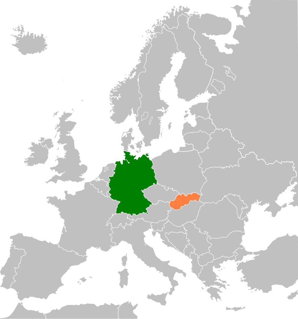 Map of Europe highlighting Germany and Slovakia, for an article on relations between the two countries